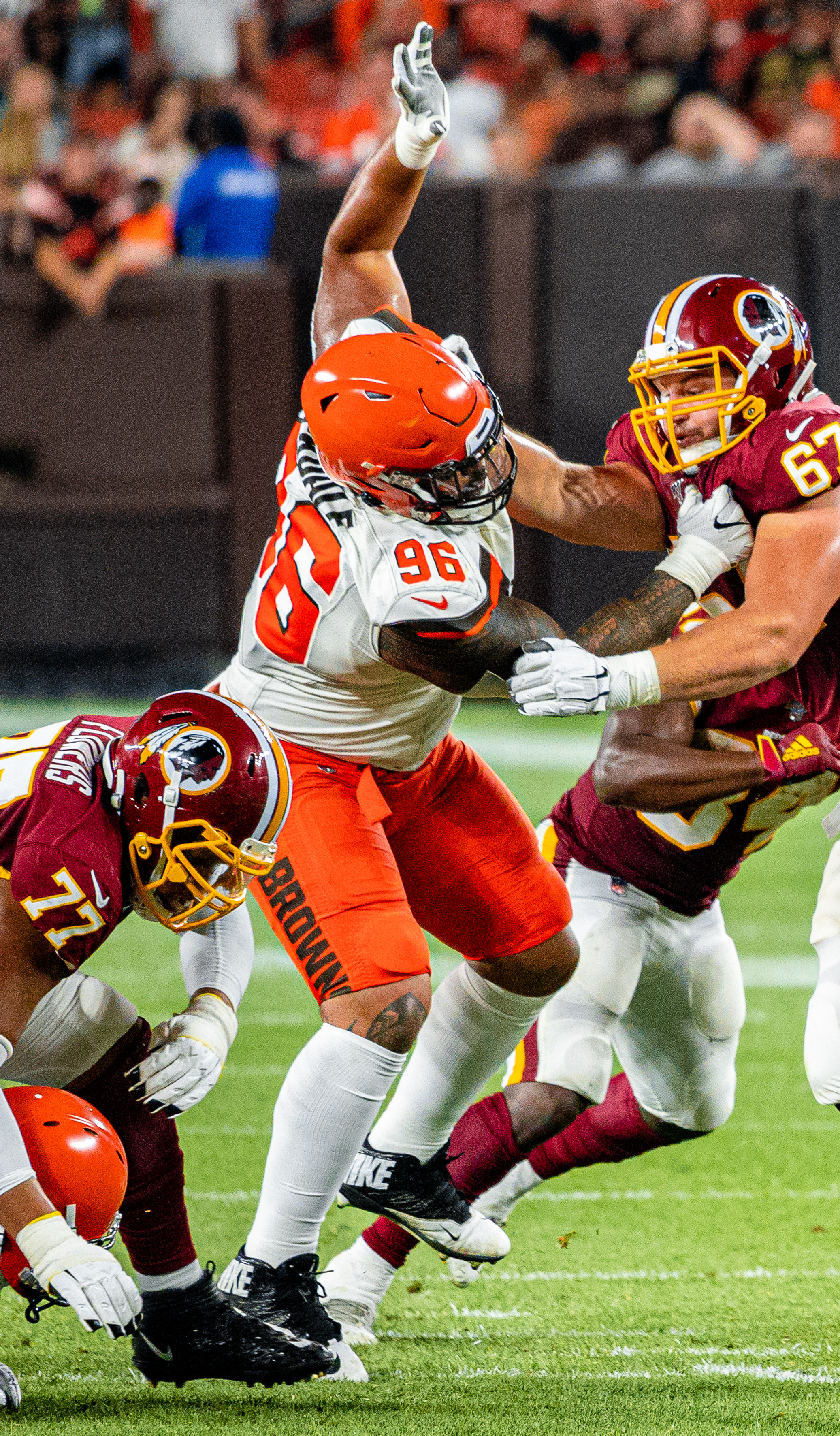 Dwayne Haskins throwing a pass while Danny Ekuale attempts to rush him